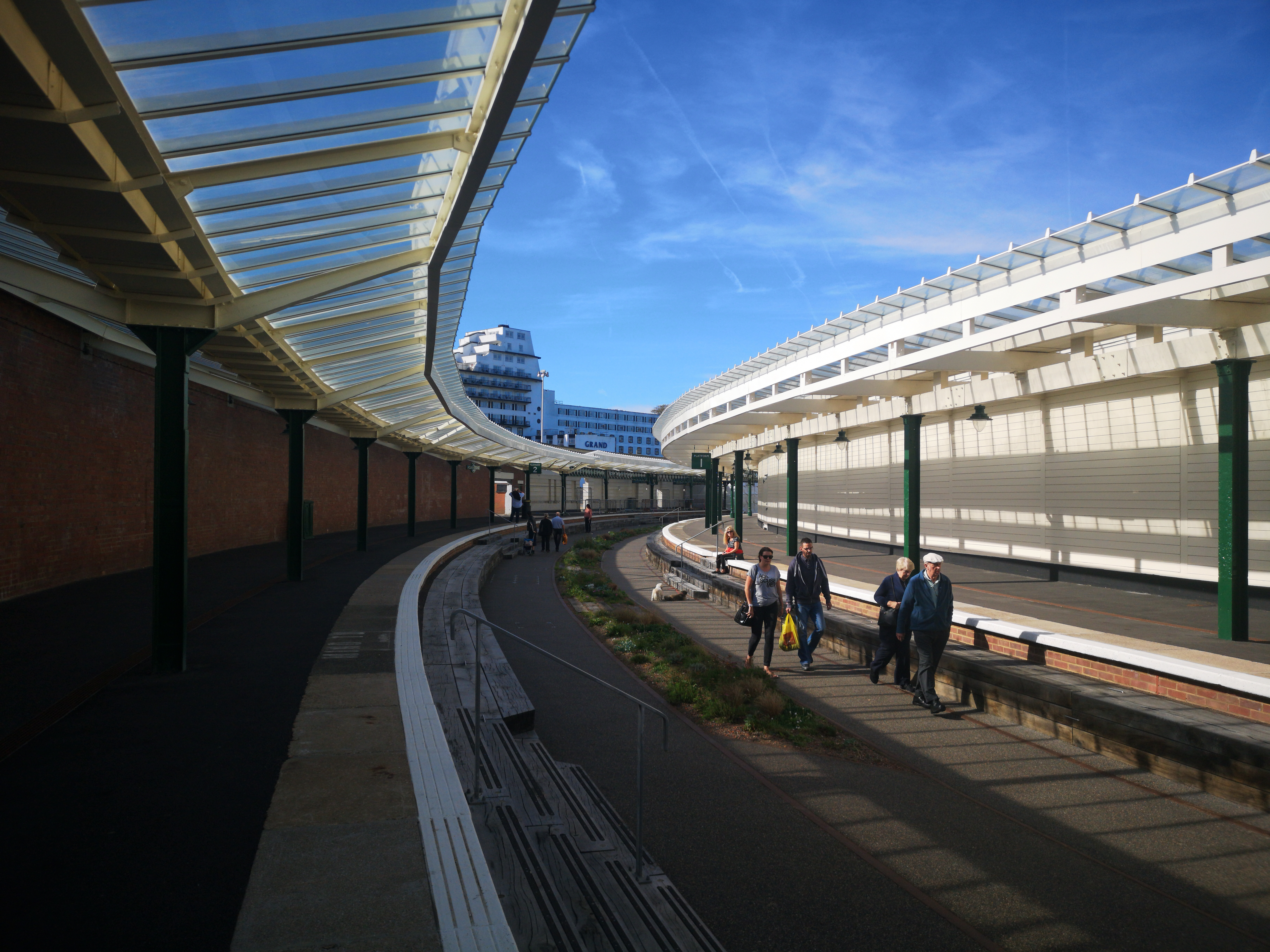 View of Folkestone Harbour Station Platform 1 & 2 following 2018 refurbishment works by ACME.